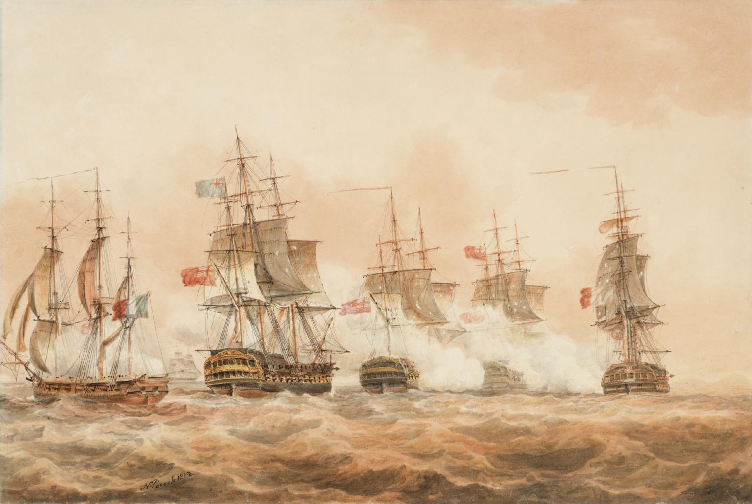 The Battle of Lissa 1812 Nicholas Pocock 1741-1821 Presented by the Art Fund (Herbert Powell Bequest) 1967